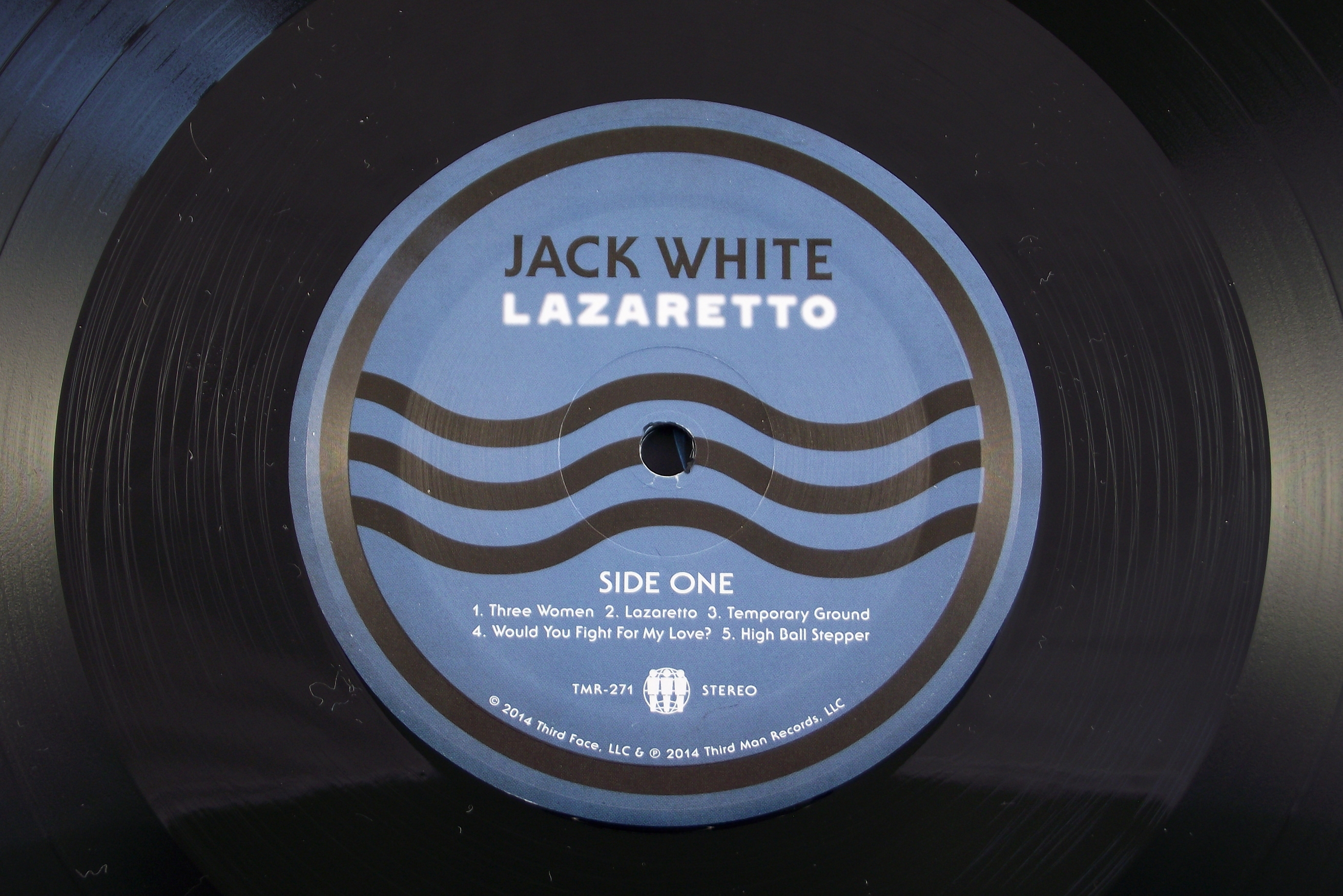 Jack White: Lazaretto, 2014